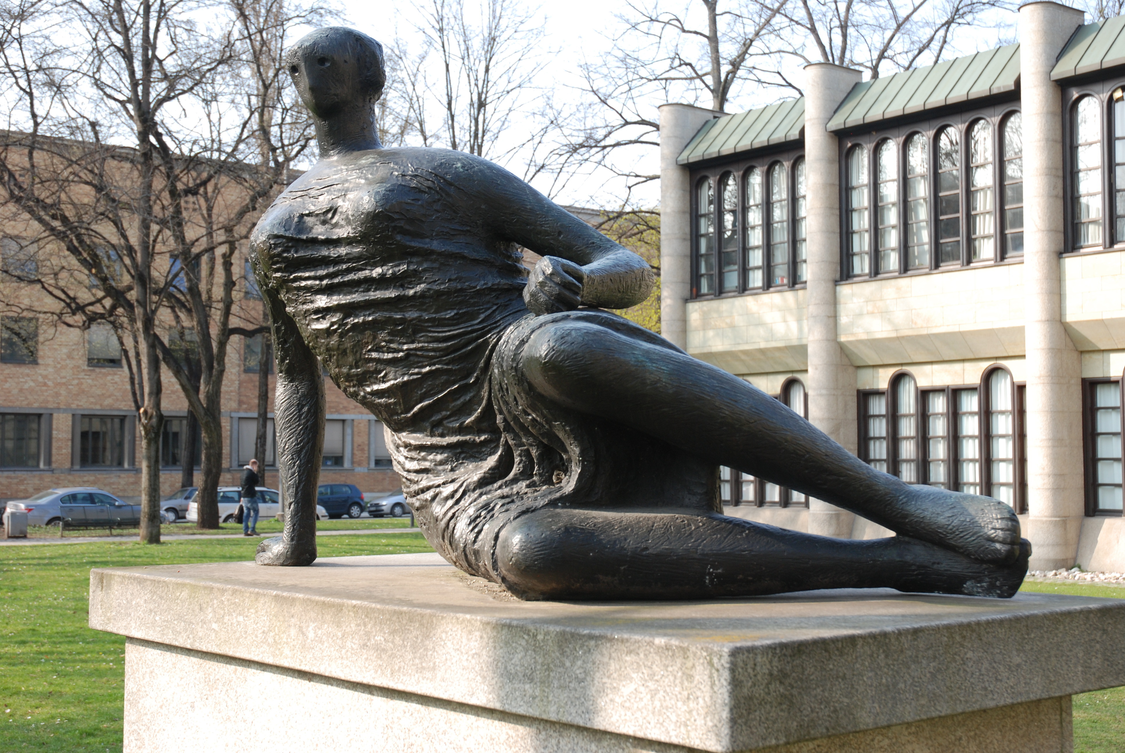 Henry Moore´s Grosse Liegende, in Skulpturenpark Pinakotheken in München